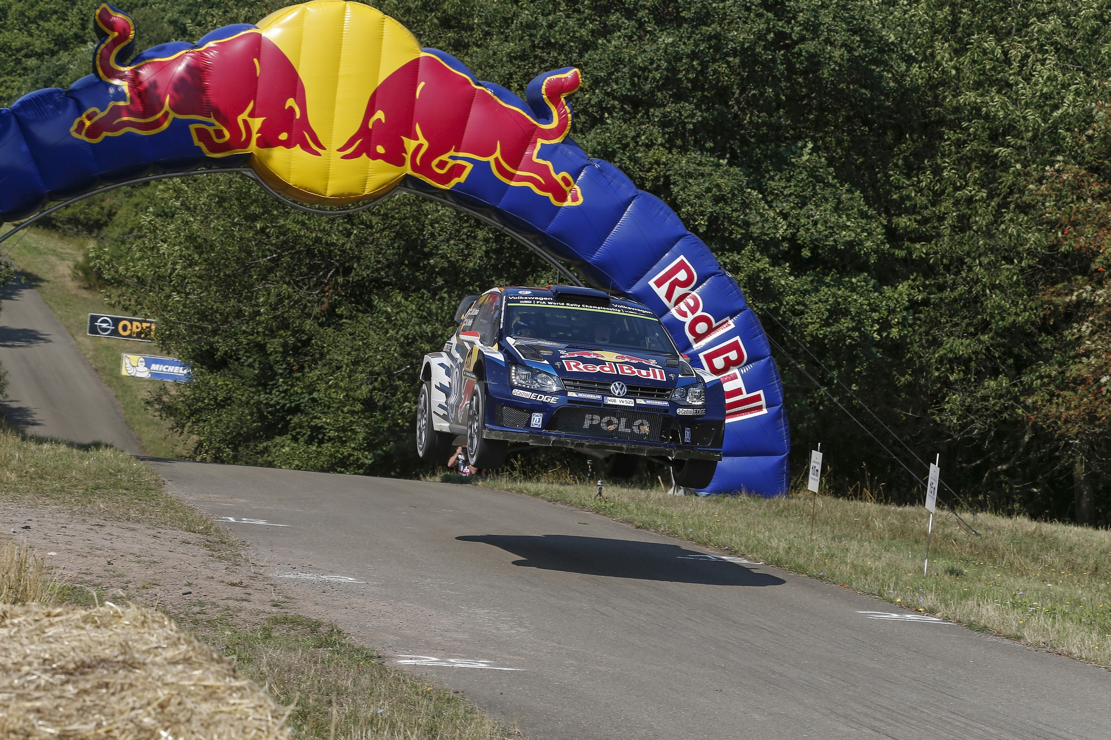 Jari-Matti Latvala and co-driver Miikka Anttila in their VW Polo R WRC at the 2015 Rally Germany, Round 9 of the 2015 World Rally Championship.